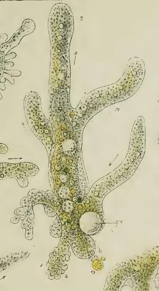 Amoeba proteus, from Joseph Leidy's Fresh-water Rhizopods of North America